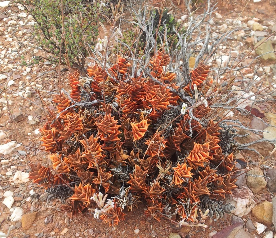 Haworthia viscosa - western cape South Africa